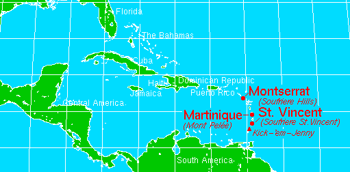 USGS map (Topinka, USGSICVO, 2000, Using PARC Map View Basemap, 1997)